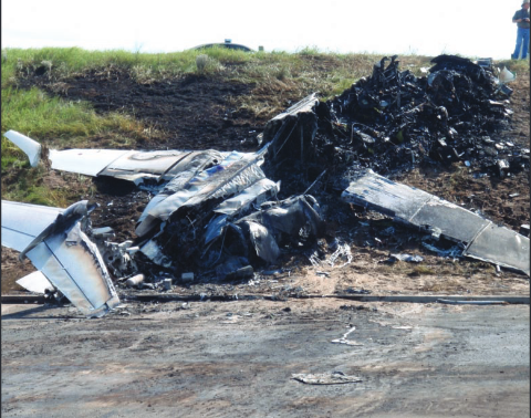 photograph of the Learjet 60 crash on September 19, 2008, 23:53 EDT at Columbia Metropolitan Airport, SC.